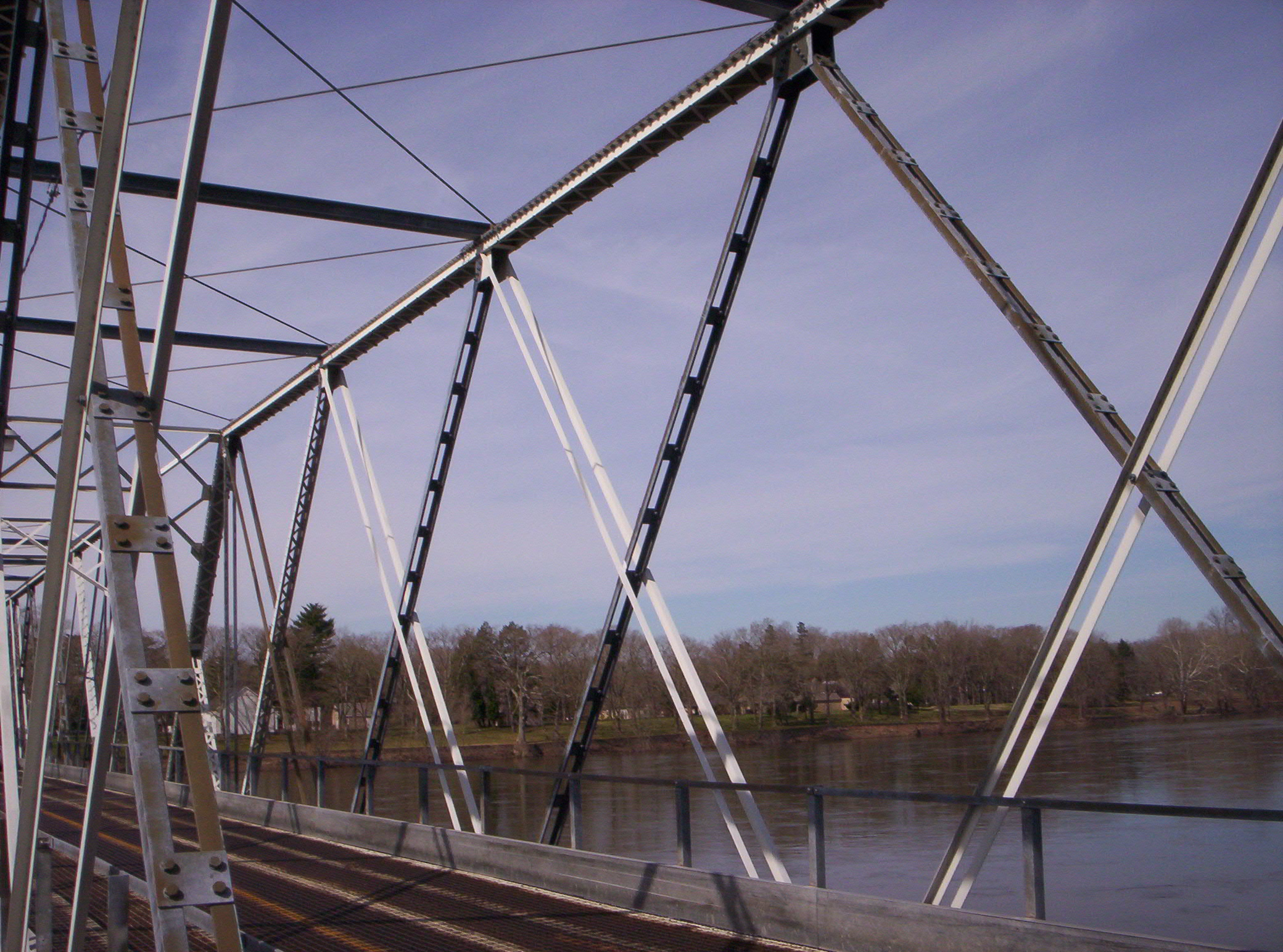 Washington Crossing Bridge-truss members joining upper chord